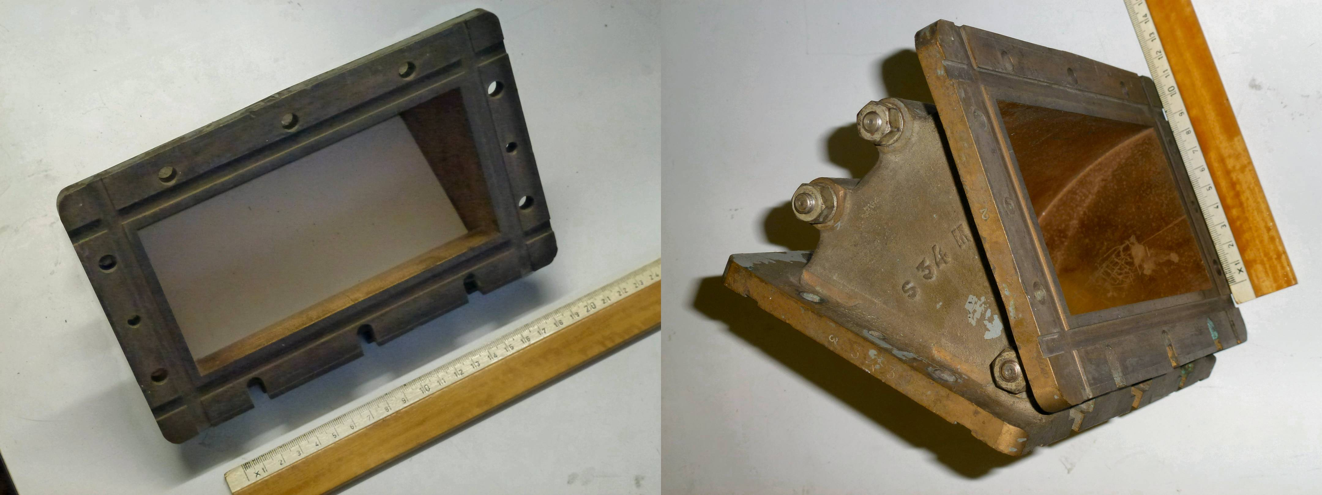 Waveguide (ankle piece, of searchradar, 16.5*8.25cm, ~900MHz)